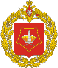 emblem of Volga-Urals Military District